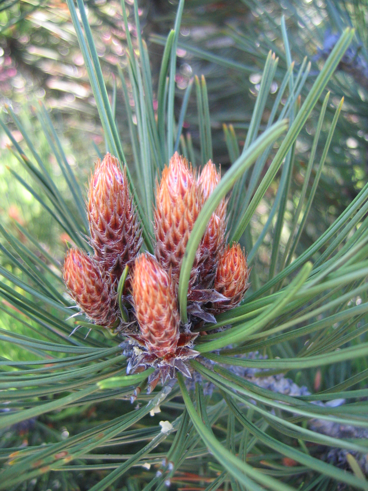 Bosnian Pine cultivar 'Compact Gem' (Pinus heldreichii 'Compact Gem' Great Britain, before 1964), Wrocław University Botanical Garden, Wrocław, Poland.